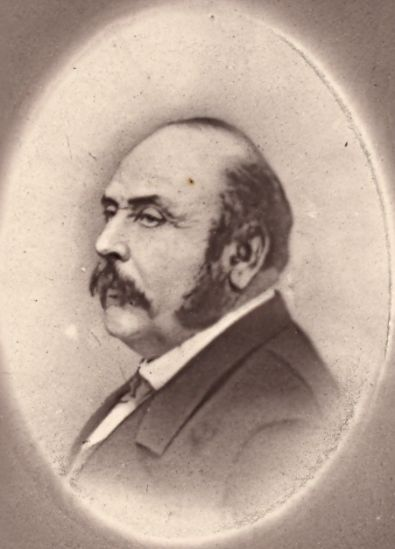 French politician Alexandre Ledru-Rollin (1807-1874)